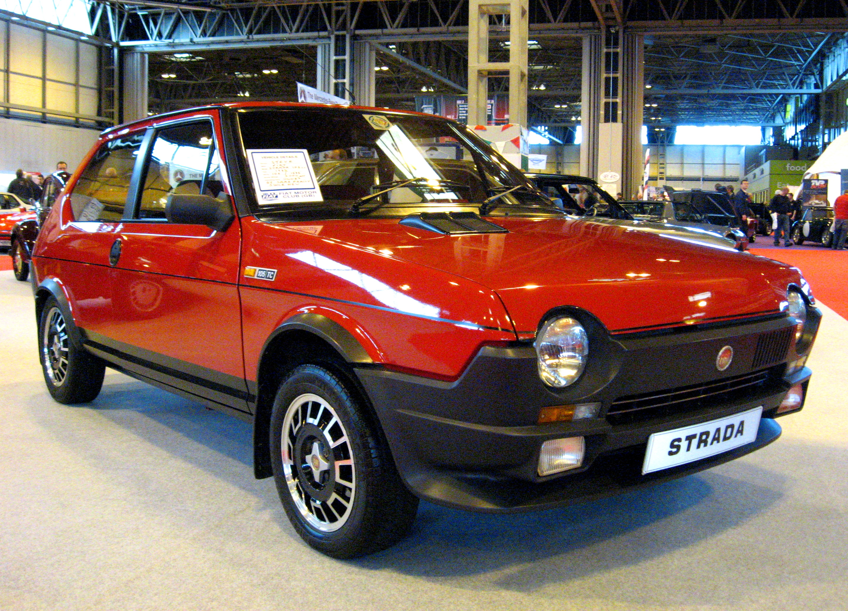 Fiat Strada 105TC (aka Fiat Ritmo), photographed at NEC Classic Motor Show 2007, Birmingham.